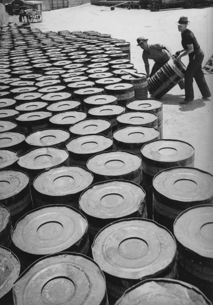 Drums of Trinidad bitumen that were brought to Brisbane on the cargo ship Larchbank in 1938. Caption under photograph reads: "Some of the 14,169 drums of Trinidad bitumen which arrived at Brisbane in the Larchbank yesterday".